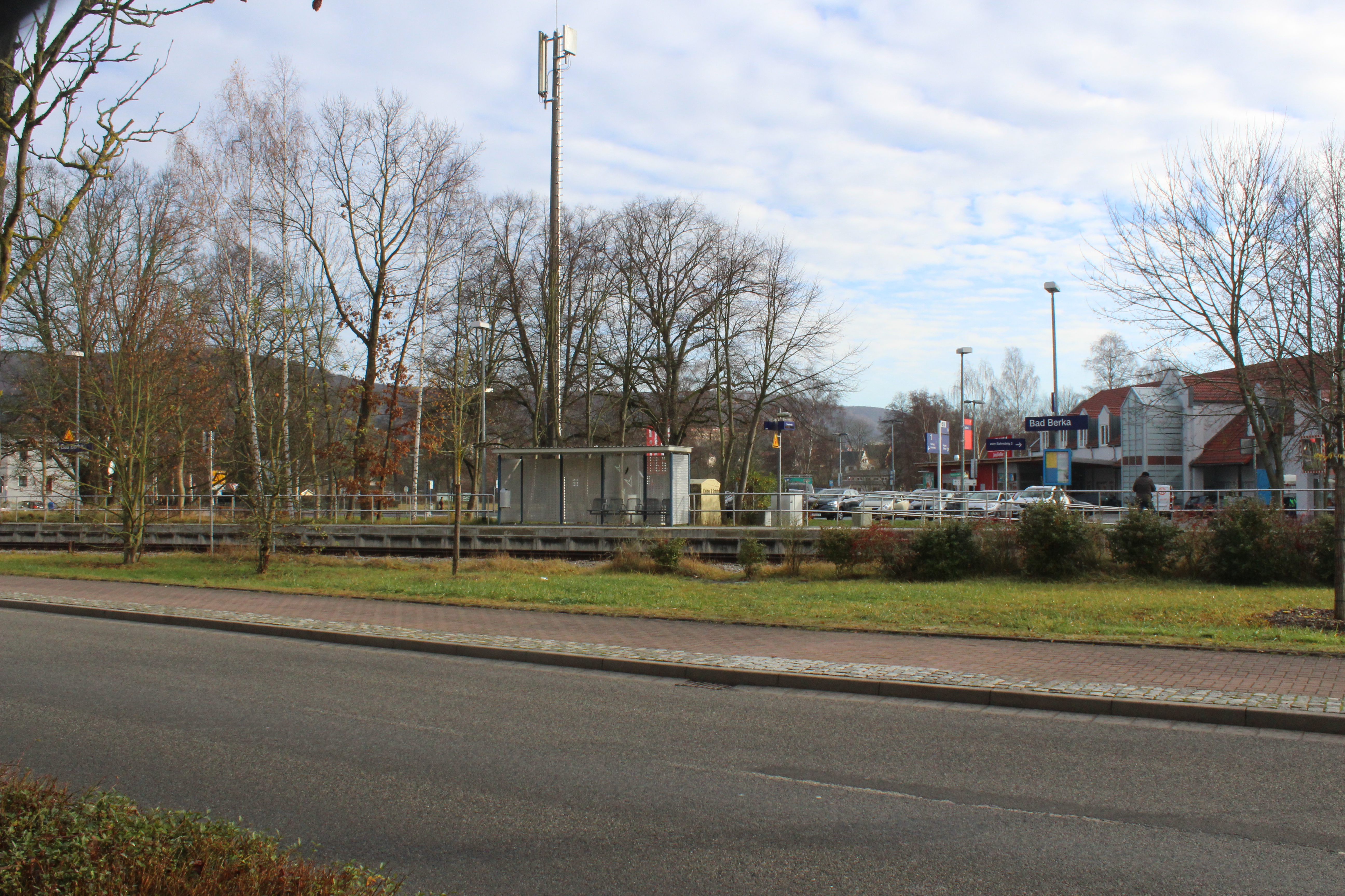 train station Bad Berka, platform in direction to Kranichfeld